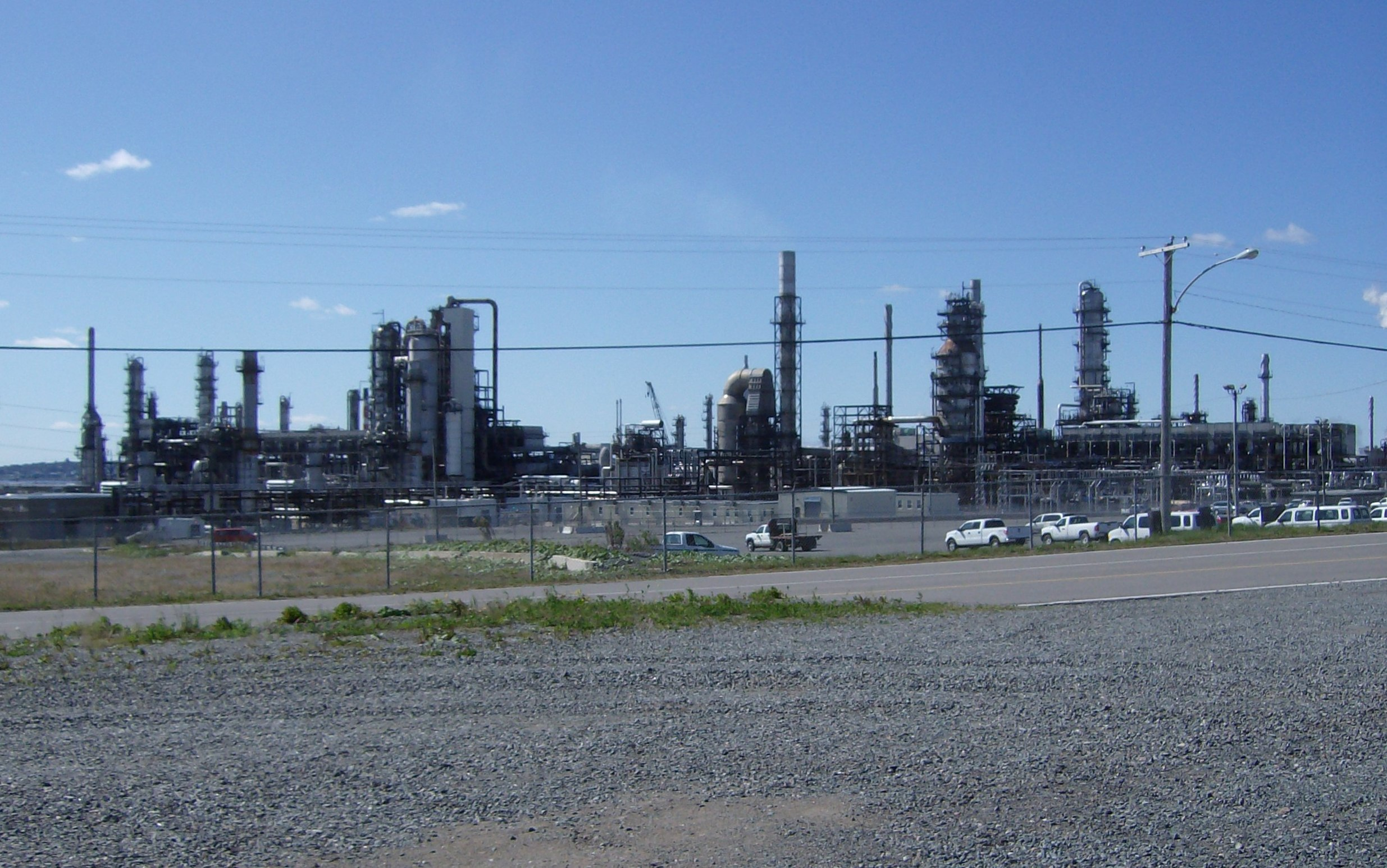 Canada's Largest Oil Refinery, Irving Oil Saint John NB